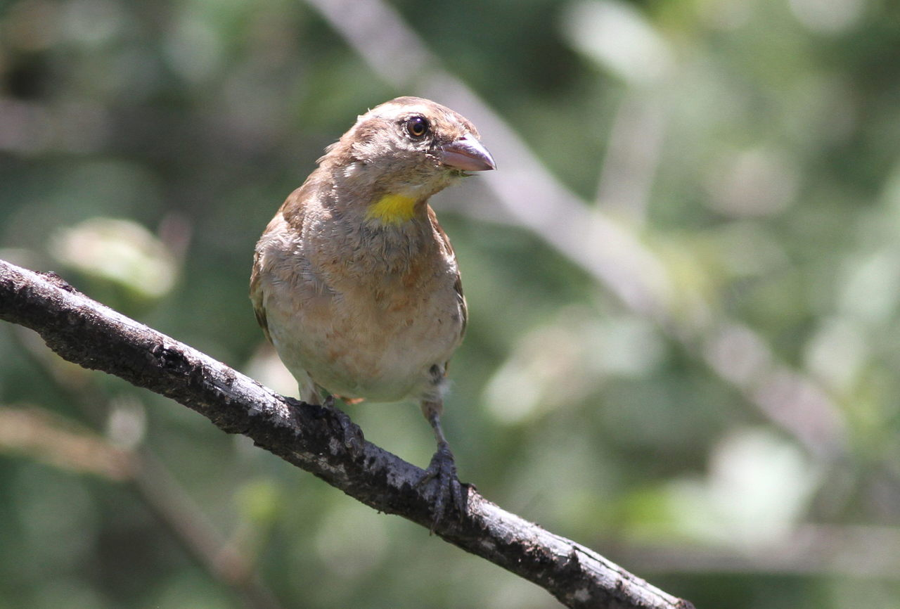 Yellow-throated Petronia, Petronia superciliaris, at Borakalalo National Park, Northwest Province, South Africa